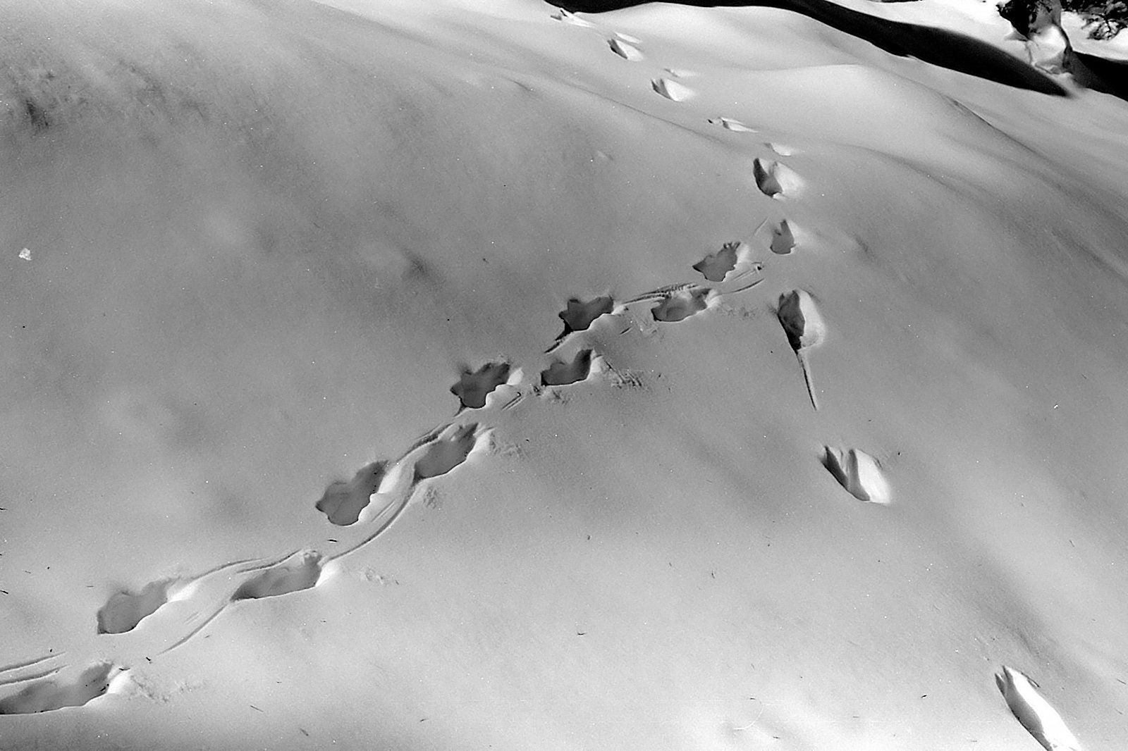 Rat on the snow